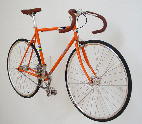 Crescent världsmästarcykel, photo from the exhibition Cyklar! at the Vandalorum art centre in Värnamo, Sweden on 23 July 2011